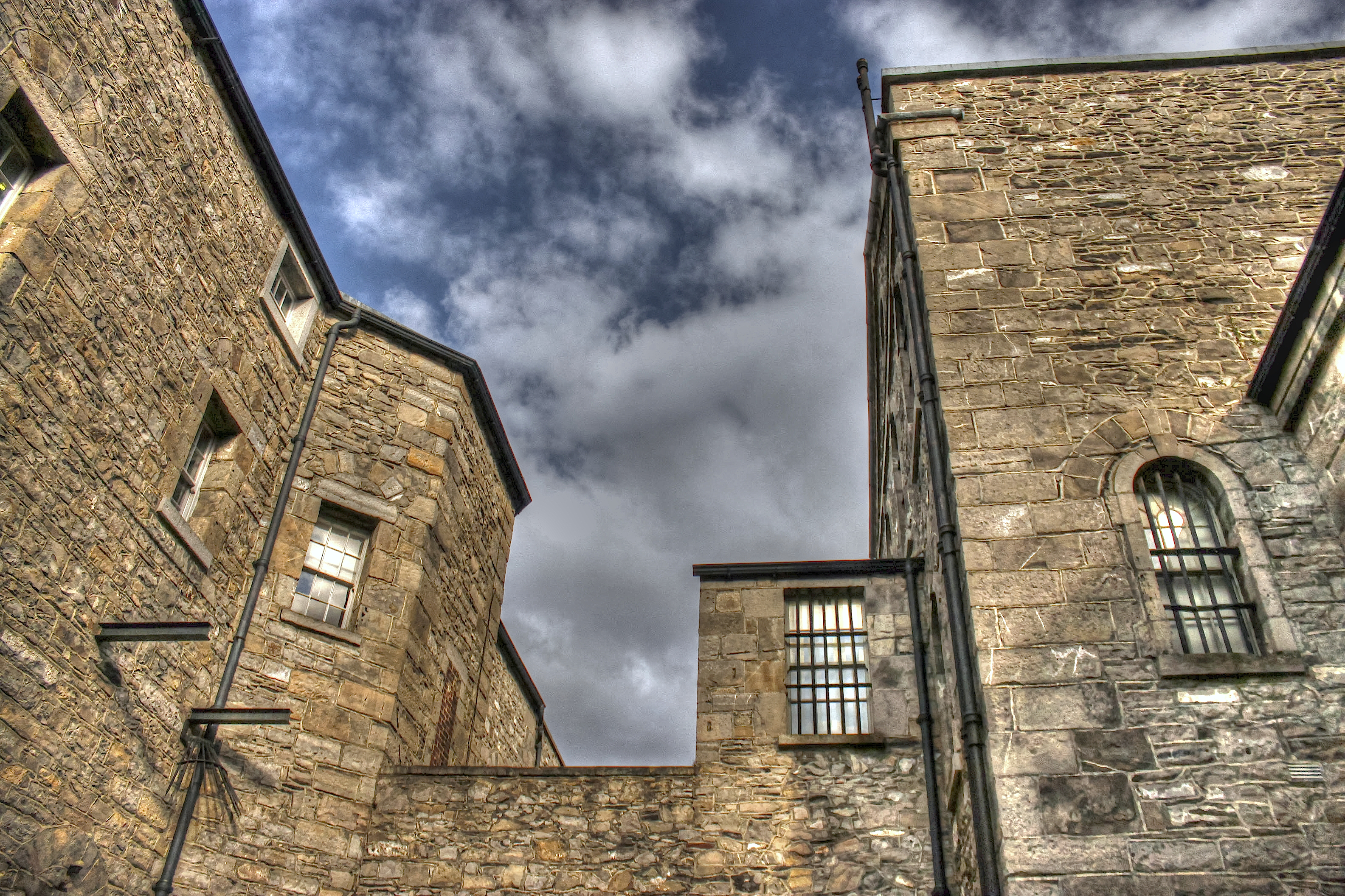 Kilmainham GaolGaeilge: Príosún Chill Mhaighneann